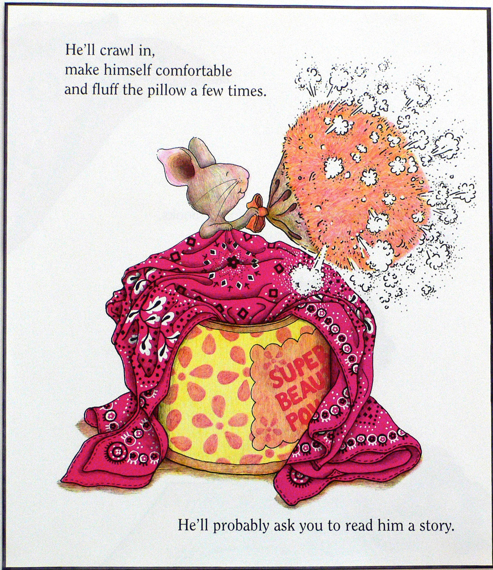 If You Give a Mouse a Cookie (5) illustrated by Felicia Bond (illustrator, children's book illustrator), and written by Laura Numeroff